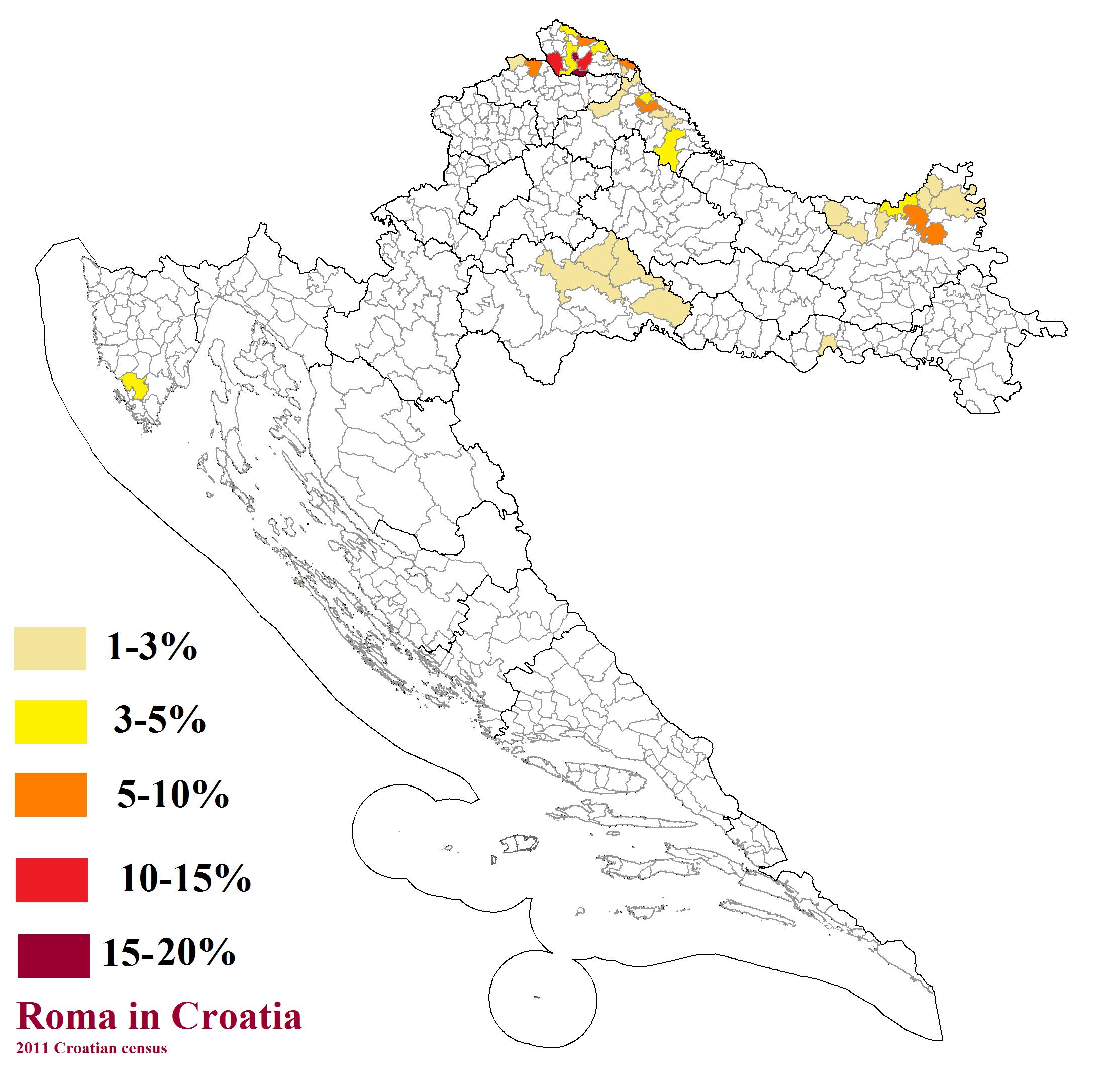 Roma of Croatia per 2011 census